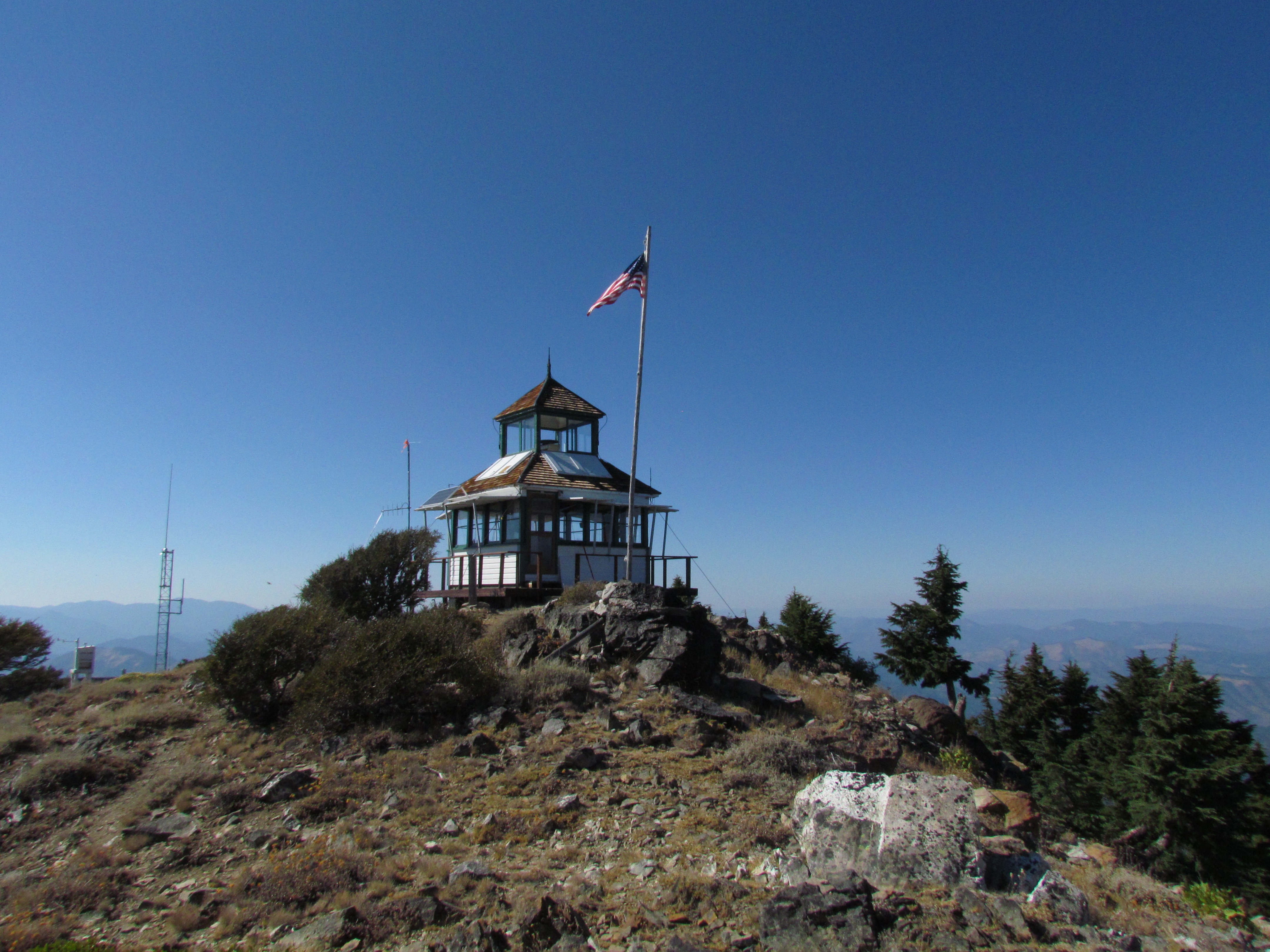 Dutchman Peak Lookout